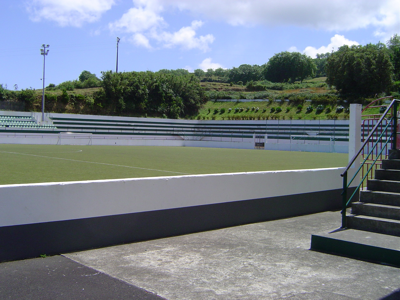 UD Nordeste stadium - western view. União Desportiva do Nordeste is a Portuguese football club based in Nordeste on the island of São Miguel in the Azores.